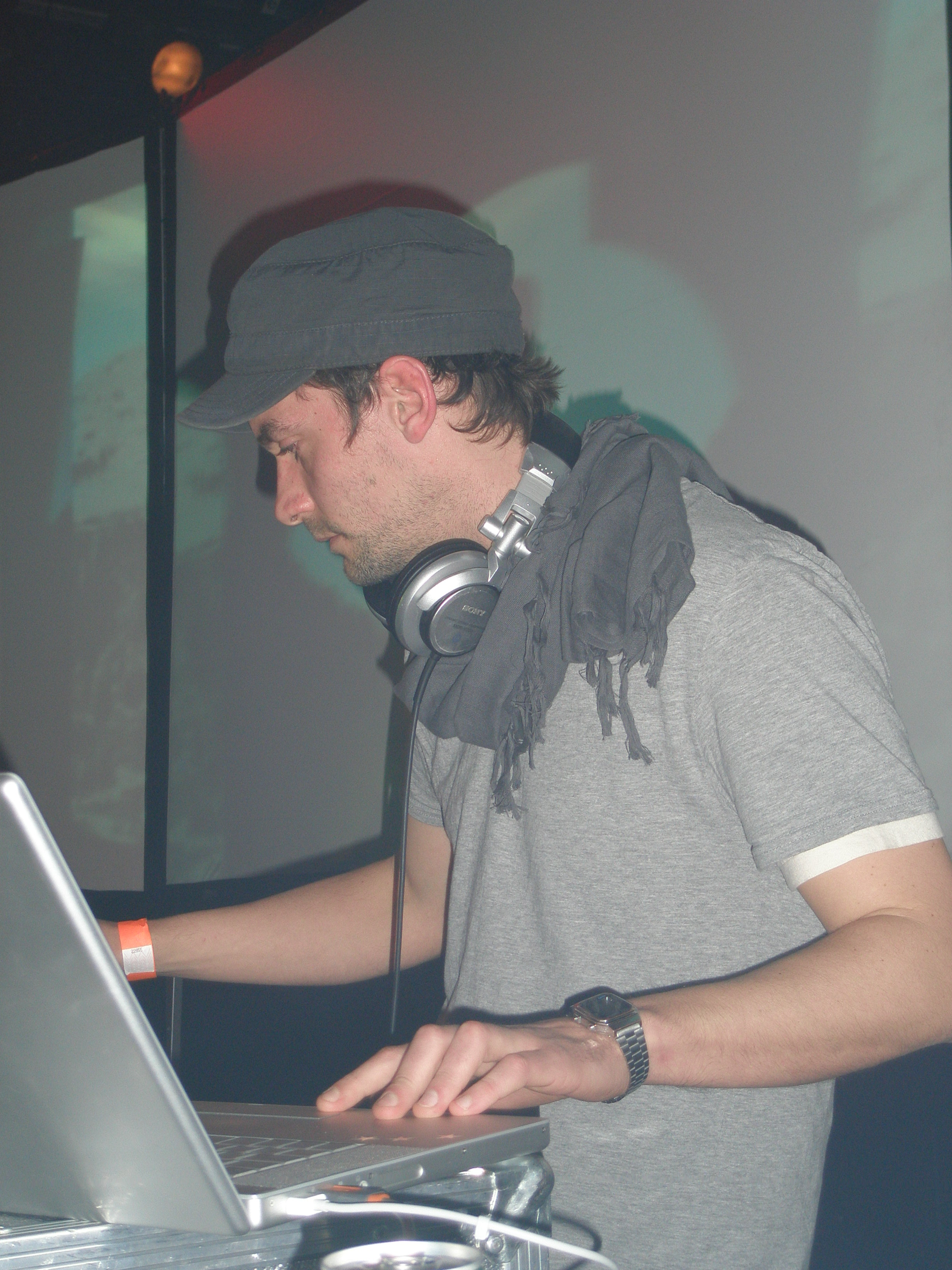 Simon Green alias Bonobo performing a DJ Set for The Remix All-Nighter at SeOne Club in London (England) on March 20th, 2008.